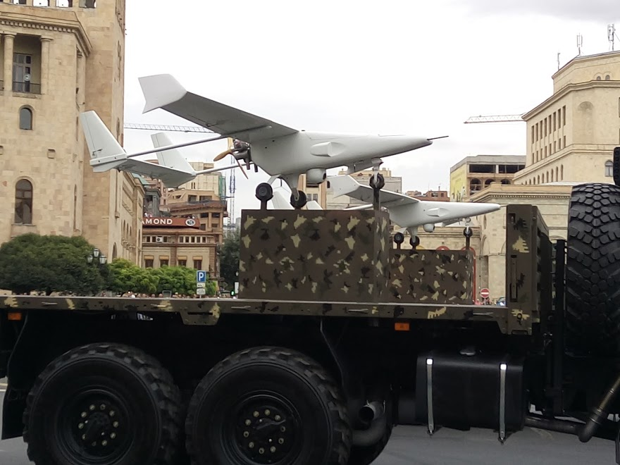 Krunk UAV in Yerevan